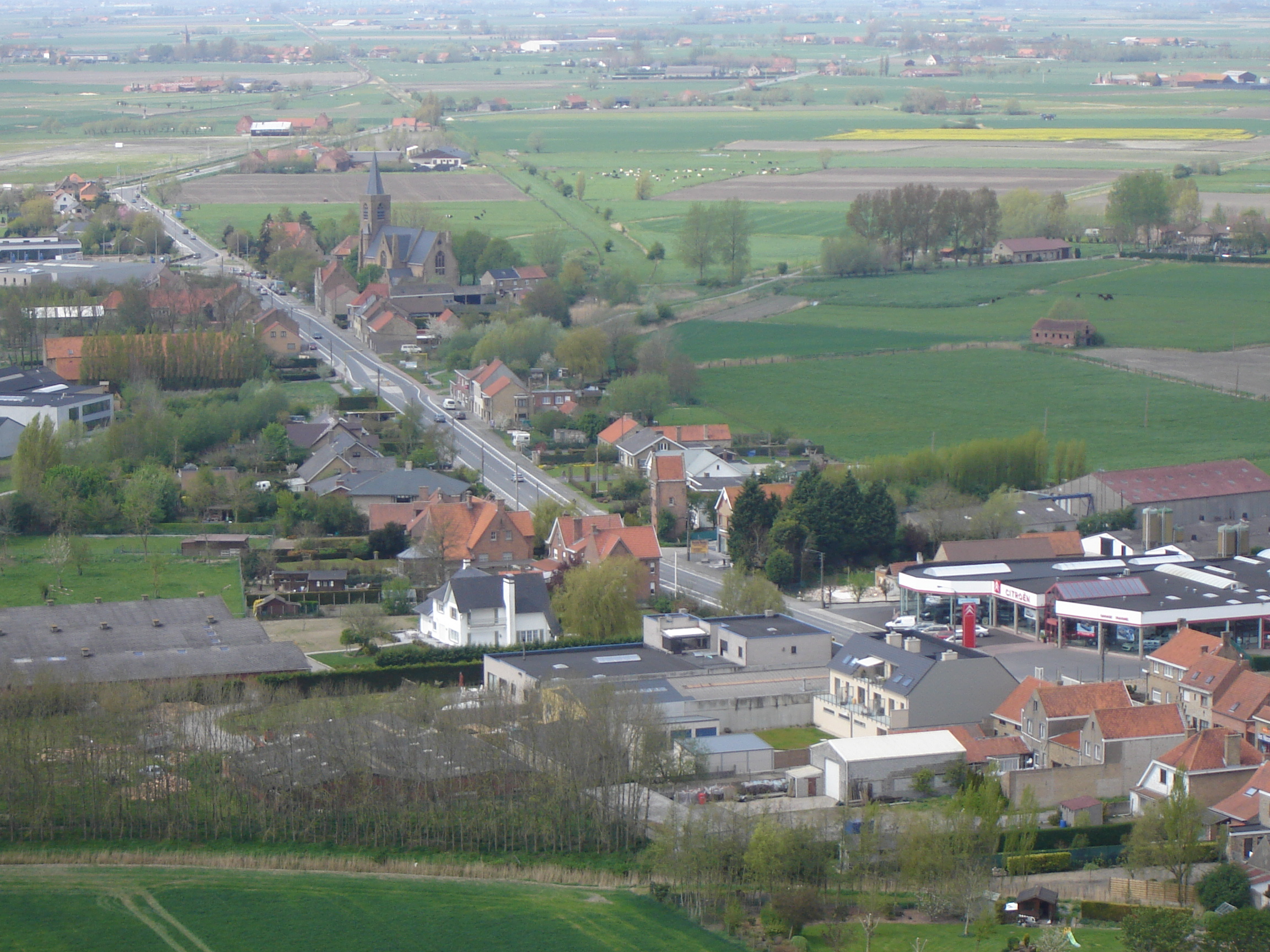 View on Kaaskerke (seen from the IJzertoren tower). Kaaskerke, Diksmuide, West Flanders, Belgium